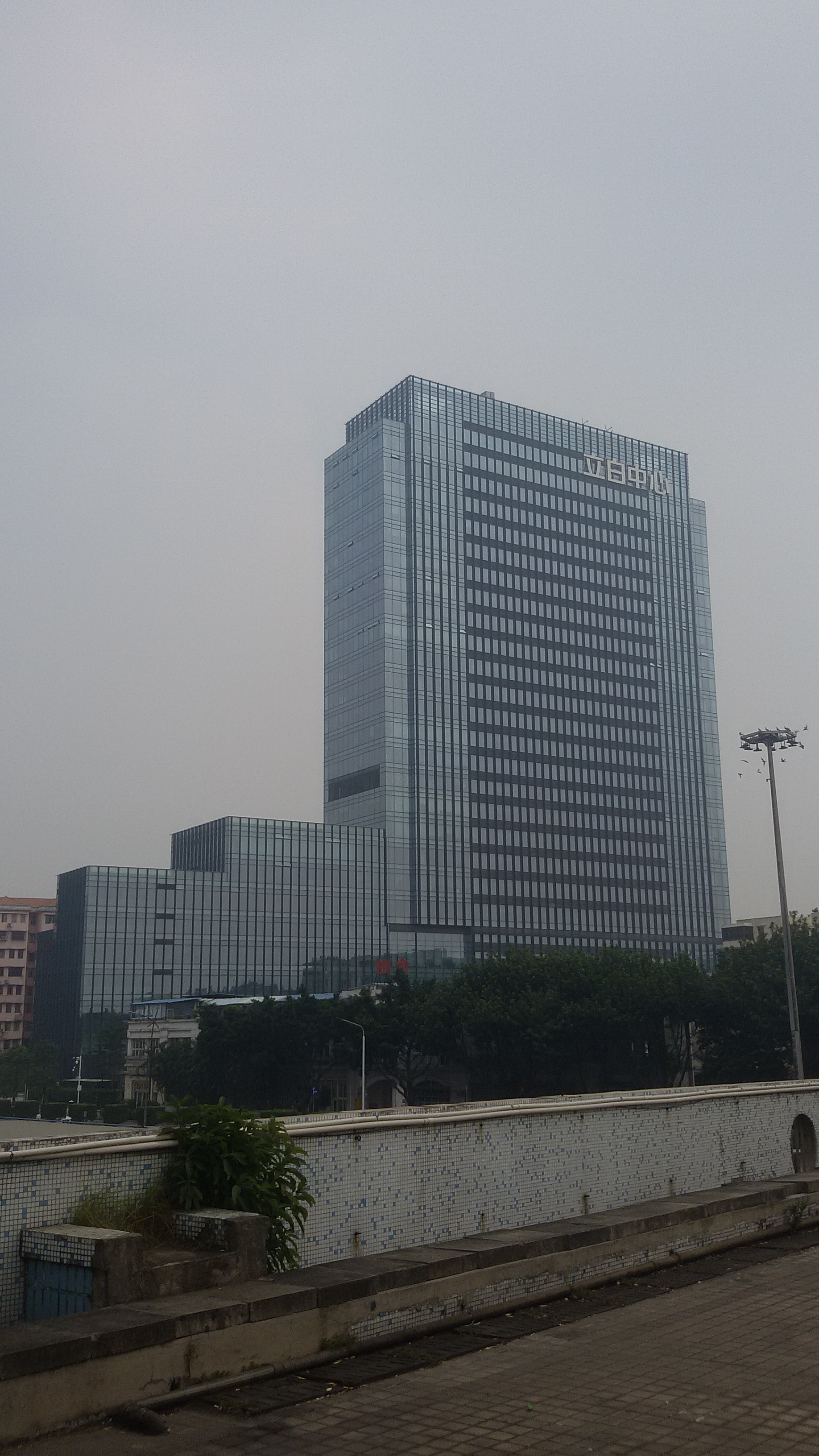 Liby Centre